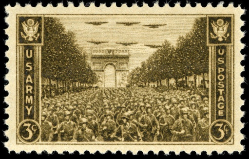 1945 3-cent stamp picturing the Arc de Triumph in Paris France with marching U.S. Army soldiers and an overflight by U.S. Army Air Force.